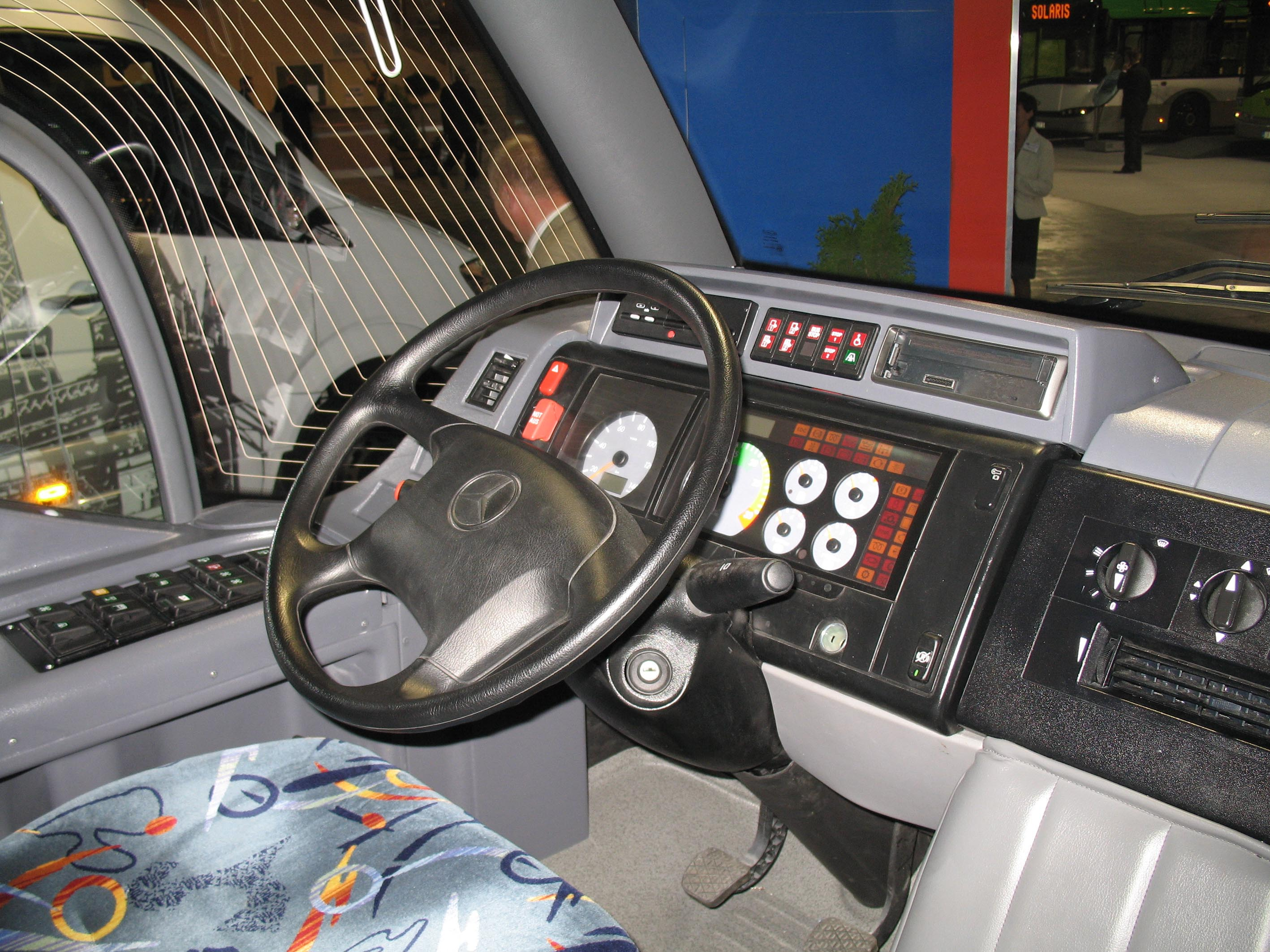 Autosan A8V.02.01 Wetlina City bus cockpit in Kielce, Poland, Transexpo 2008. Built 2008. Base on Mercedes-Benz Vario chassis.